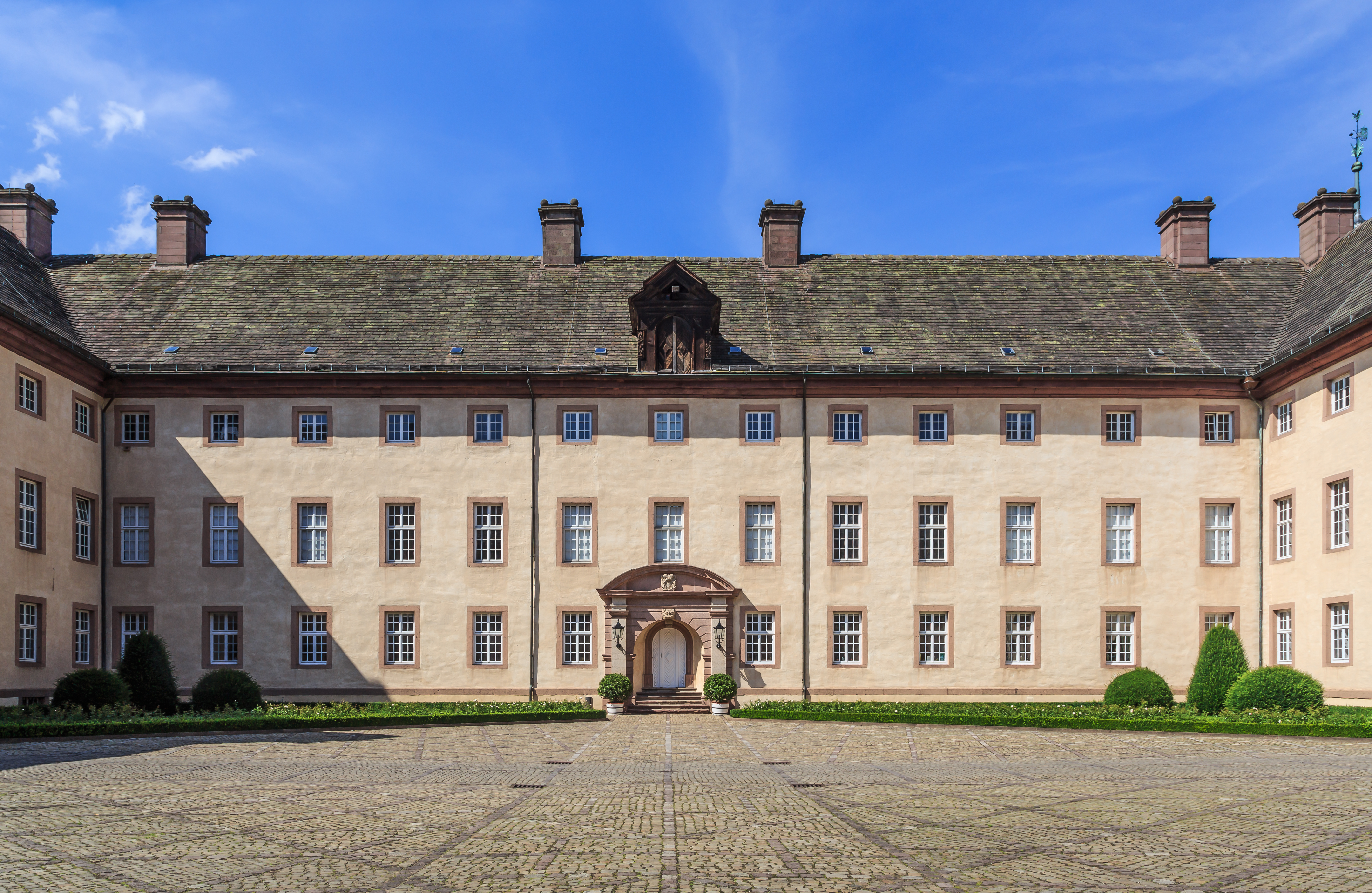 Höxter, Germany: Courtyard of Corvey